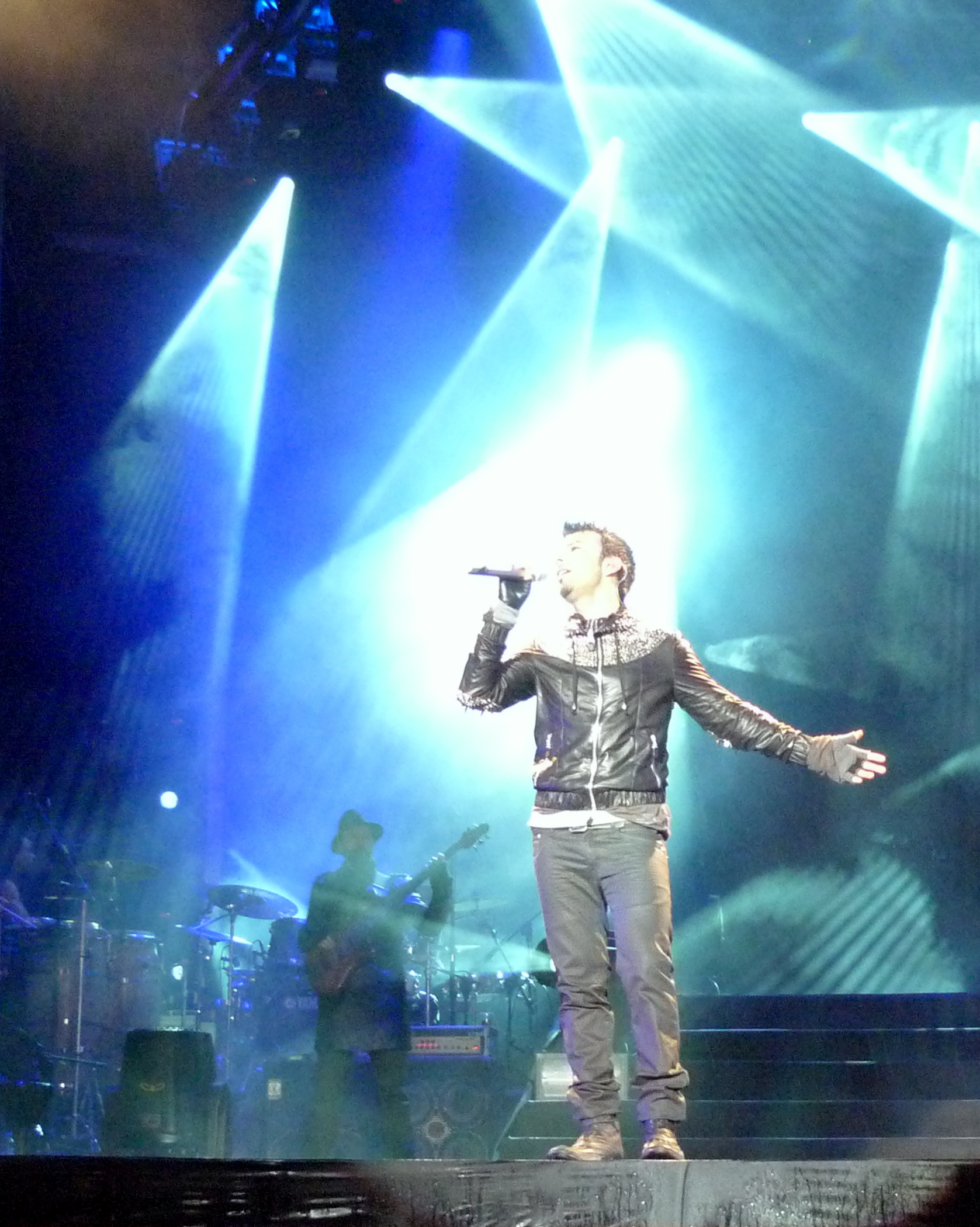 Tarkan in Istanbul concert, 2010.